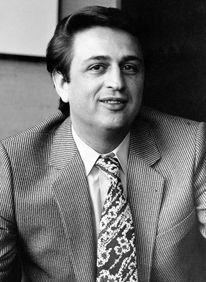 Sadeq Tabatabaei as Spokesman for the interim government of Iran - 1979 (2)